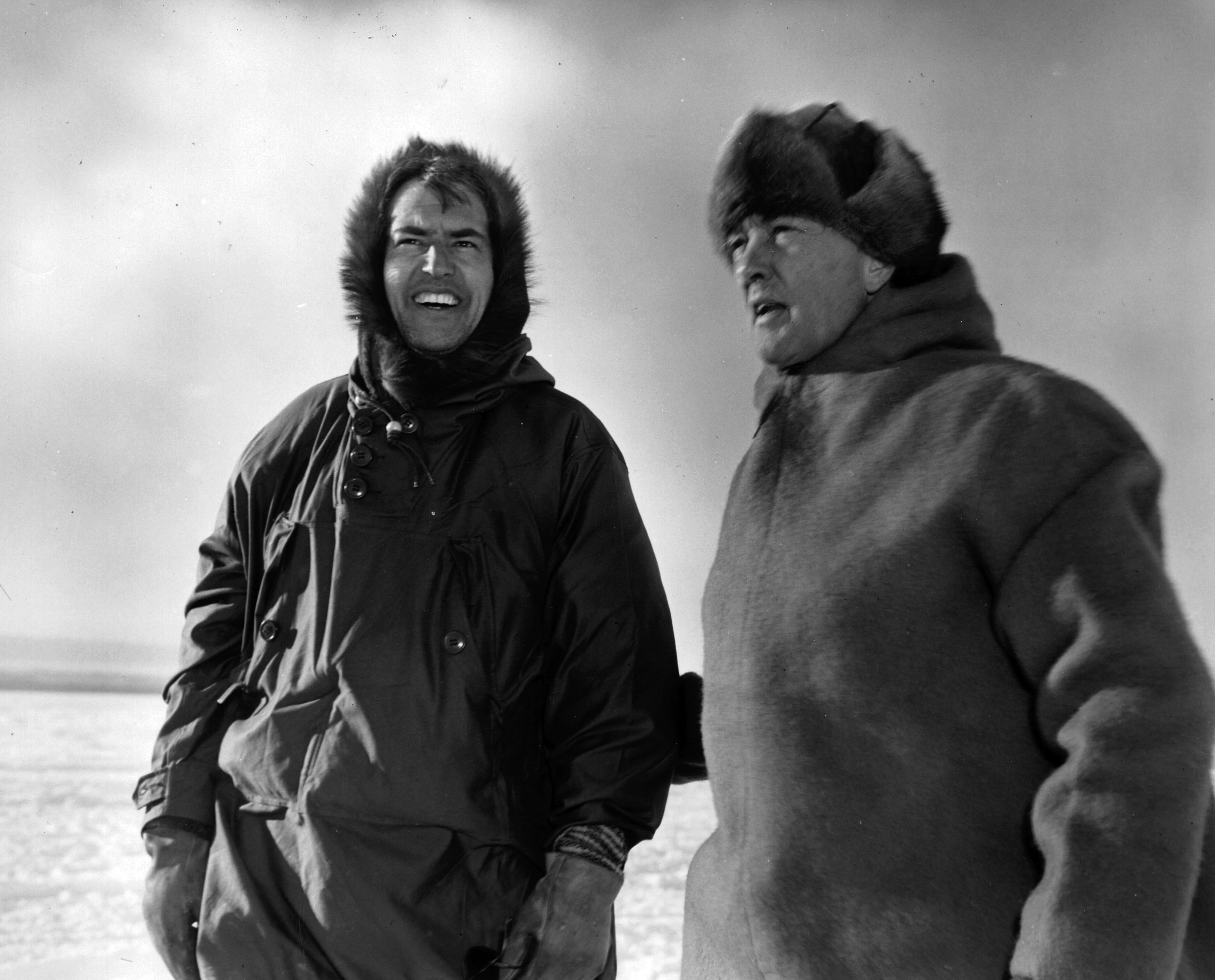 Dr. Paul Siple, left, senior representative of the War Department on Operation Highjump, and Rear Admiral Richard Byrd. Dr. Siple accompanied Admiral Byrd on each of his expeditions to the antarctic.